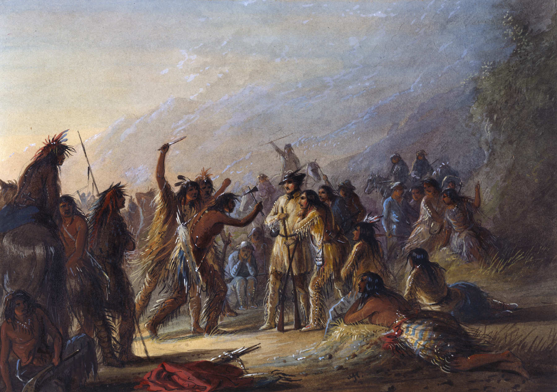 Miller did not see this scene, which occurred during one of Captain Stewart's earlier trips to the mountains, but it was explained to him in detail and he painted several versions of it, including a large painting approximately 5 x 9 feet for Murthly Castle and this fine watercolor. According to LeRoy R. Hafen's account of the incident ("Broken Hand," p. 134), a band of young Crows invaded the camp while Fitzpatrick was away and Stewart was in charge. They carried off stock, pelts, and other property. They encountered Fitzpatrick on their return and stripped him of everything of value as well. As Stewart described the incident, the Crow medicine man had told the braves that, if they struck the first blow, they could not win. Thus, they had to provoke Stewart or someone in his party into striking the first blow. Stewart stood firm, refusing to strike. The Crows left, and the captain survived a situation in which he would have surely lost the battle. Fitzpatrick managed to talk the Crows into returning most of what they had taken.